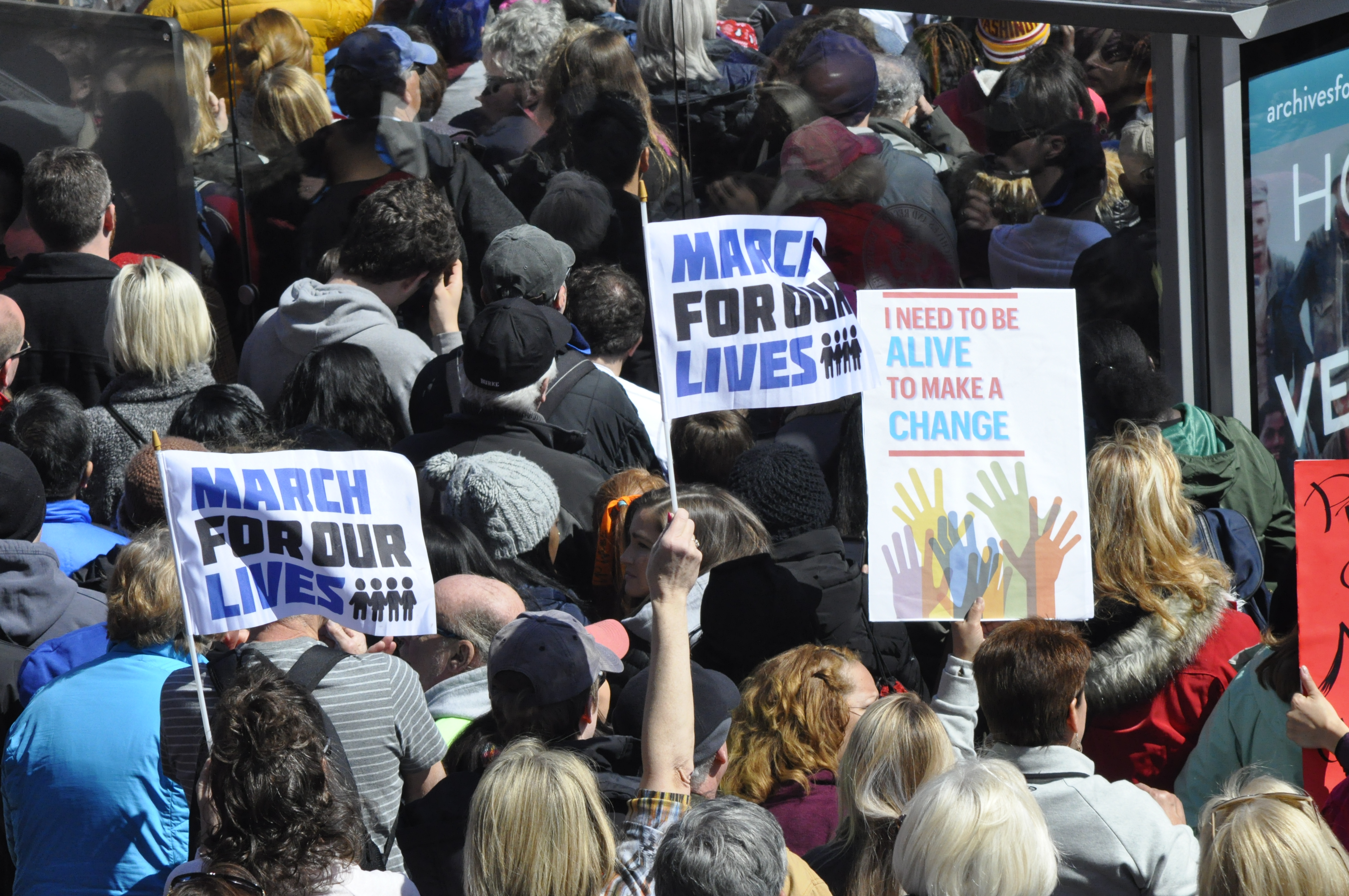 Banners and signs at March for Our Lives on 24 March 2018 in Washington, D.C.